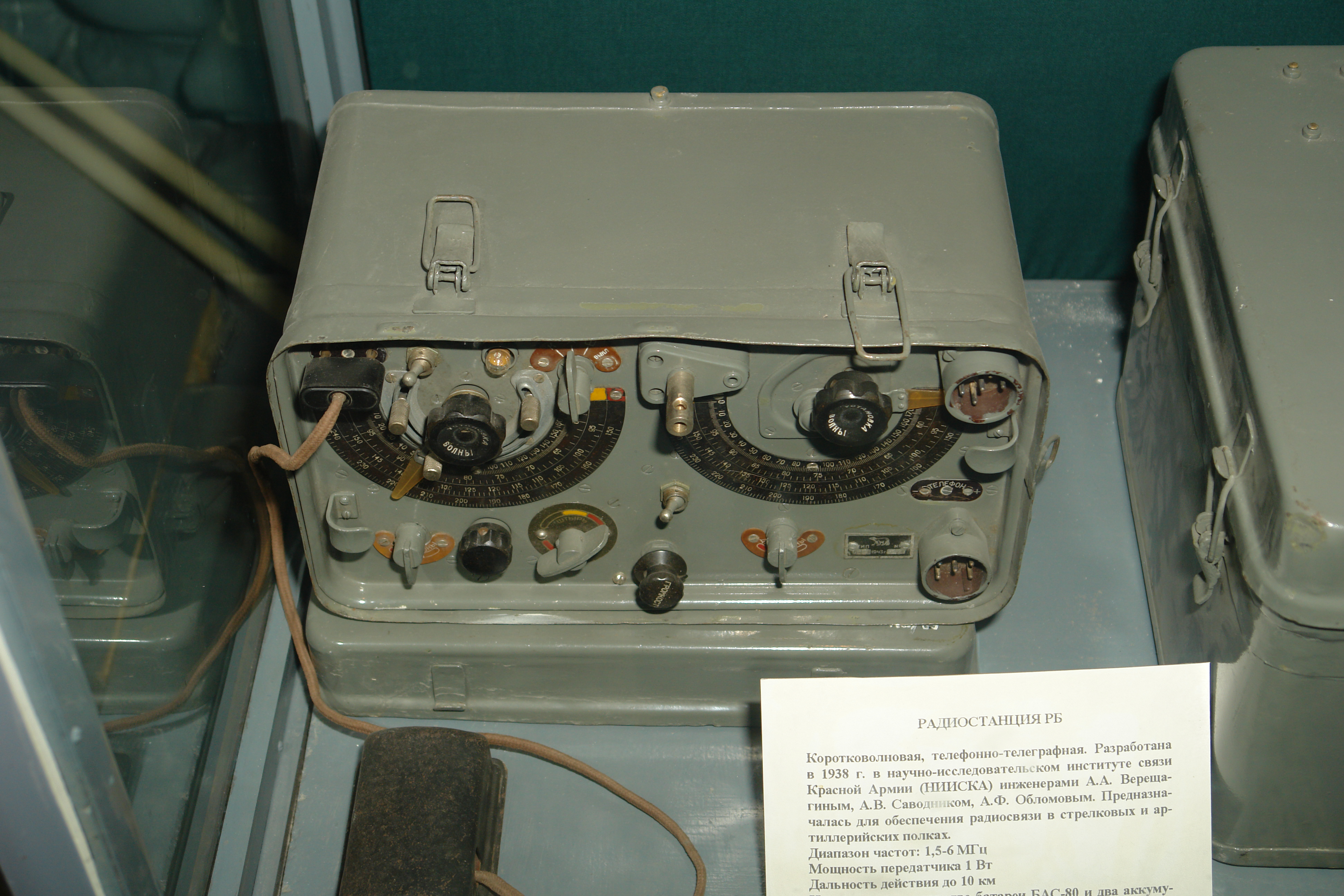 RB transmitter-receiver. Short-wave, telephone-telegraph. Developed in 1938 in the Research Institute of Signals of the Red Army (NIISKA) Designers: A. A. Vereschshagim, A. B. Savodnik, A. F. Oblomov. It was intended for guaranteeing the radio communication in the rifle and artillery regiments. Frequency band: 1.5 - 6 MHz. Power of transmitter 1 W. Range to 10 km. Power sources: two batteries BAS-80 and two accumulators 2NKN-10. Mass 21.5 kg.